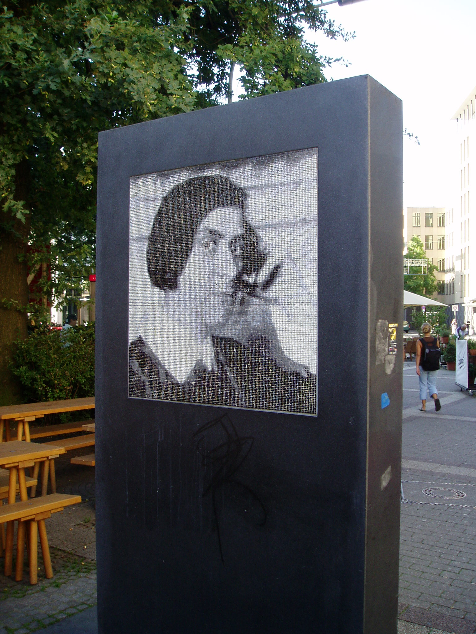 Else Lasker-Schüler Memorial in Wuppertal (One of two steles that mirror each other) Wuppertal, Sept 2006